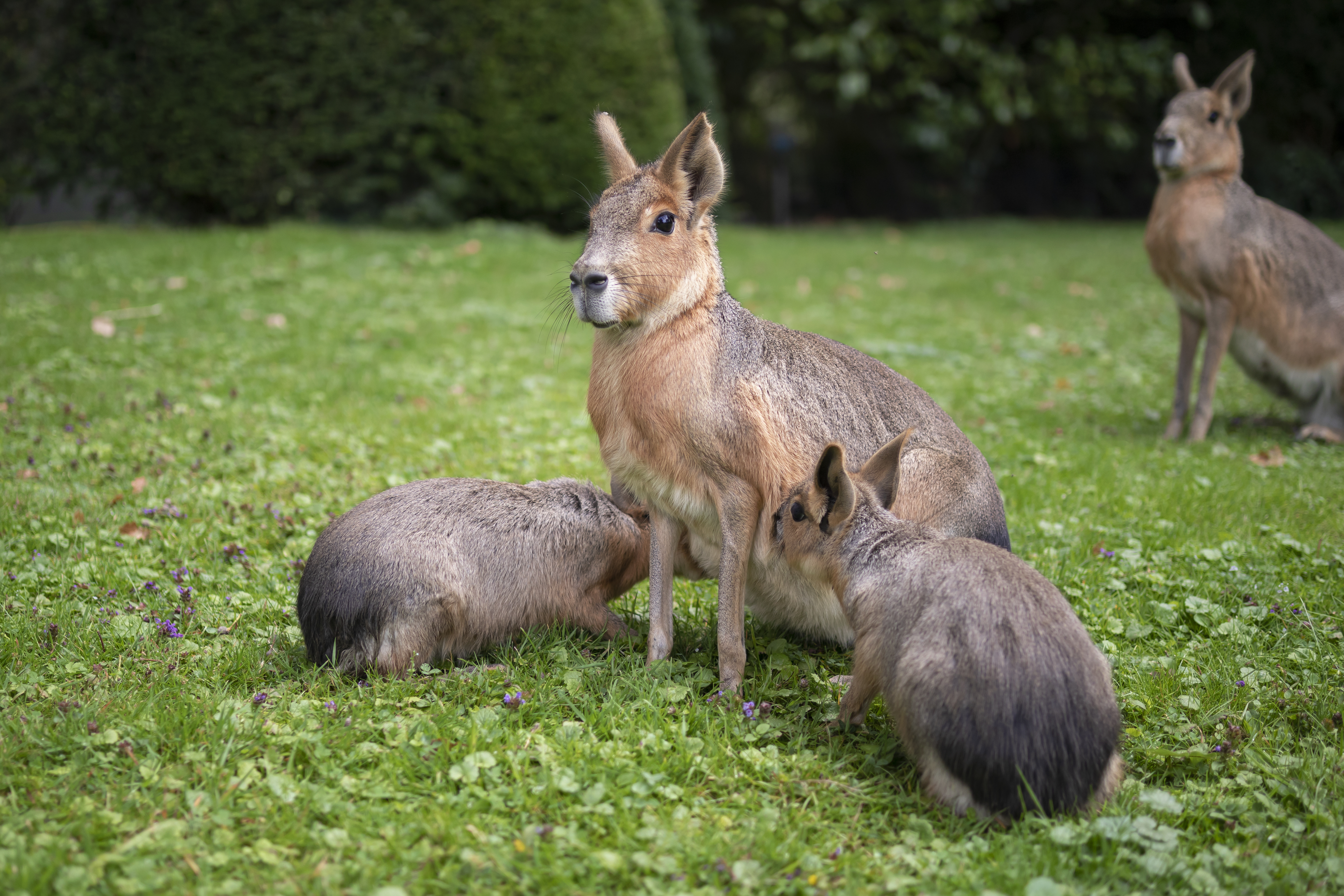 Dolichotis patagonum with children